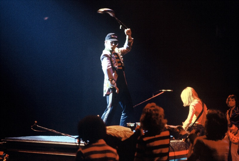 Elton John performing, 1975